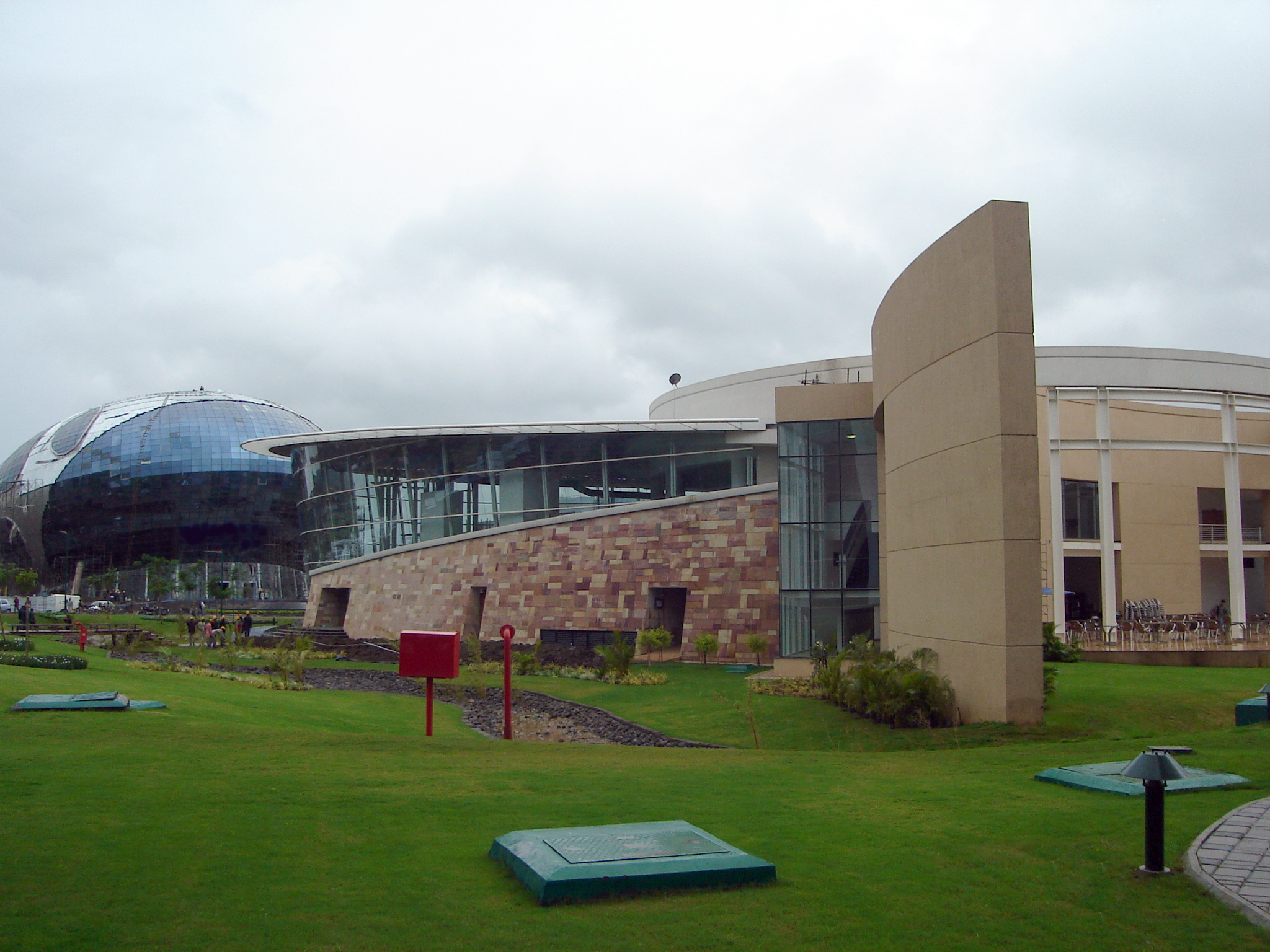 Infosys Pune Food Court on a "wet day".